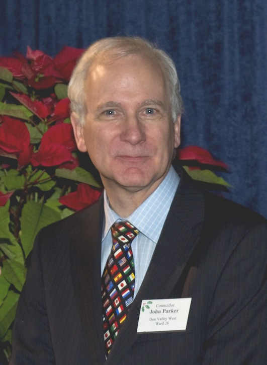 Councillor John Parker at the annual Mayor's New Years Levee at Toronto City Hall.